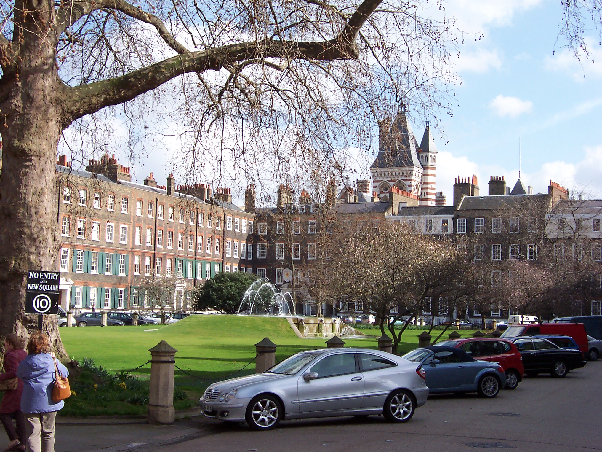 New Square, Lincoln's Inn